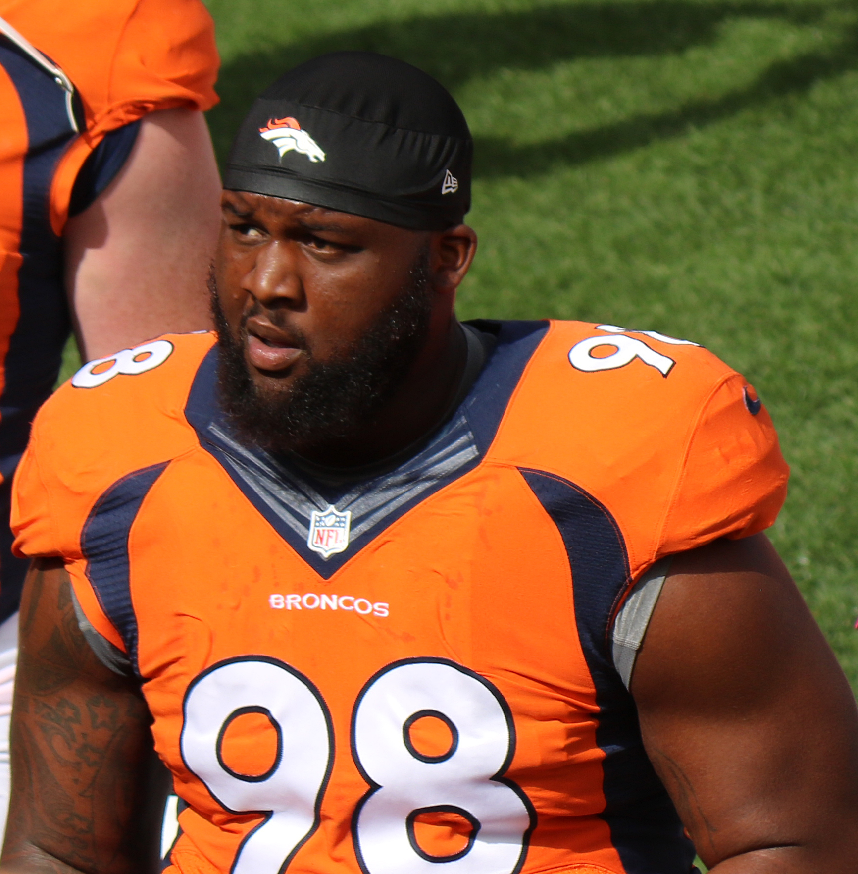 Darius Kilgo, a player on the National Football League.